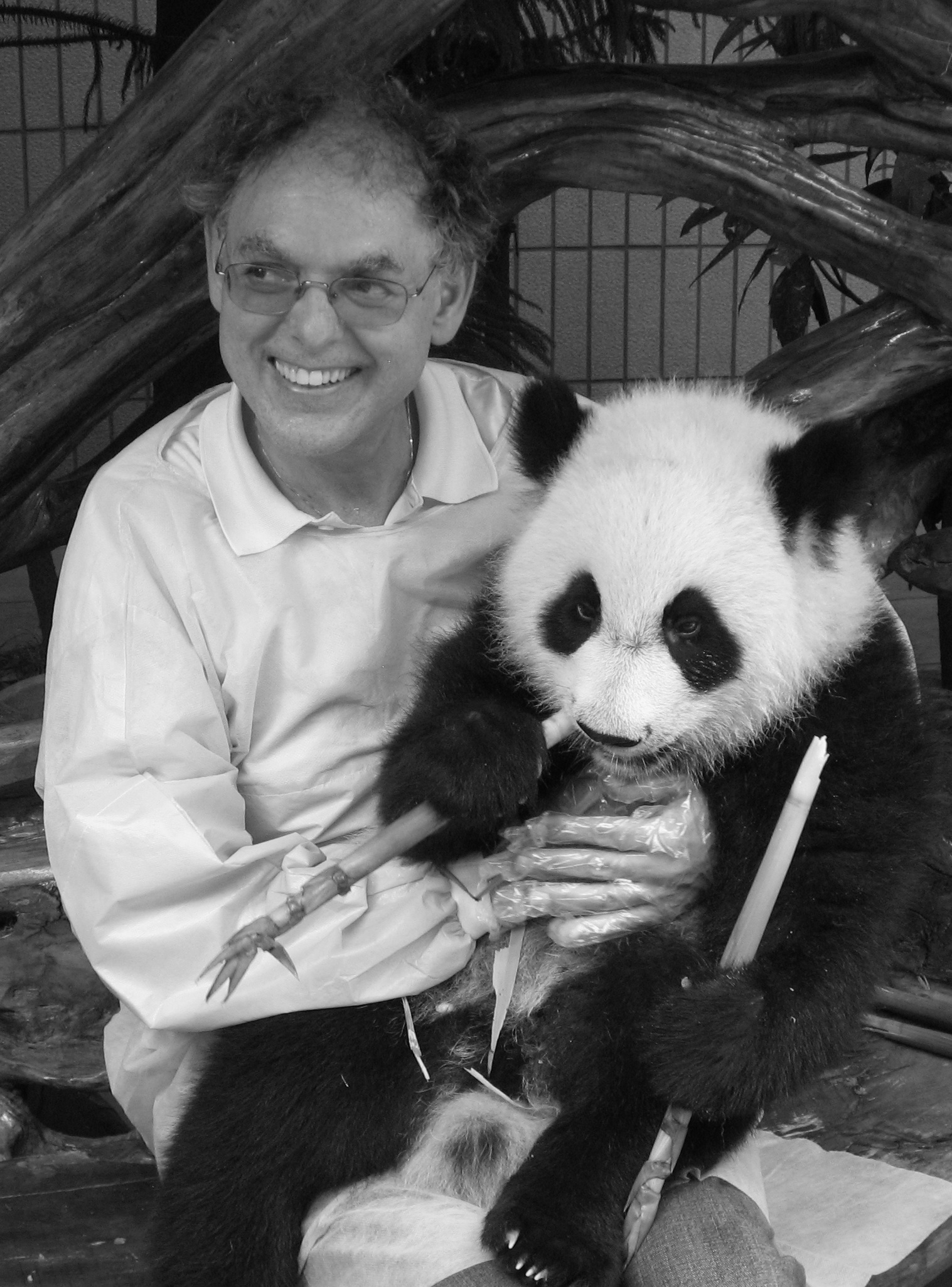 Paul Schenly with panda